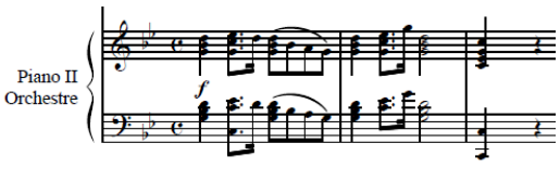 Intro Theme of Stephan Elmas' Piano Concerto No. 1